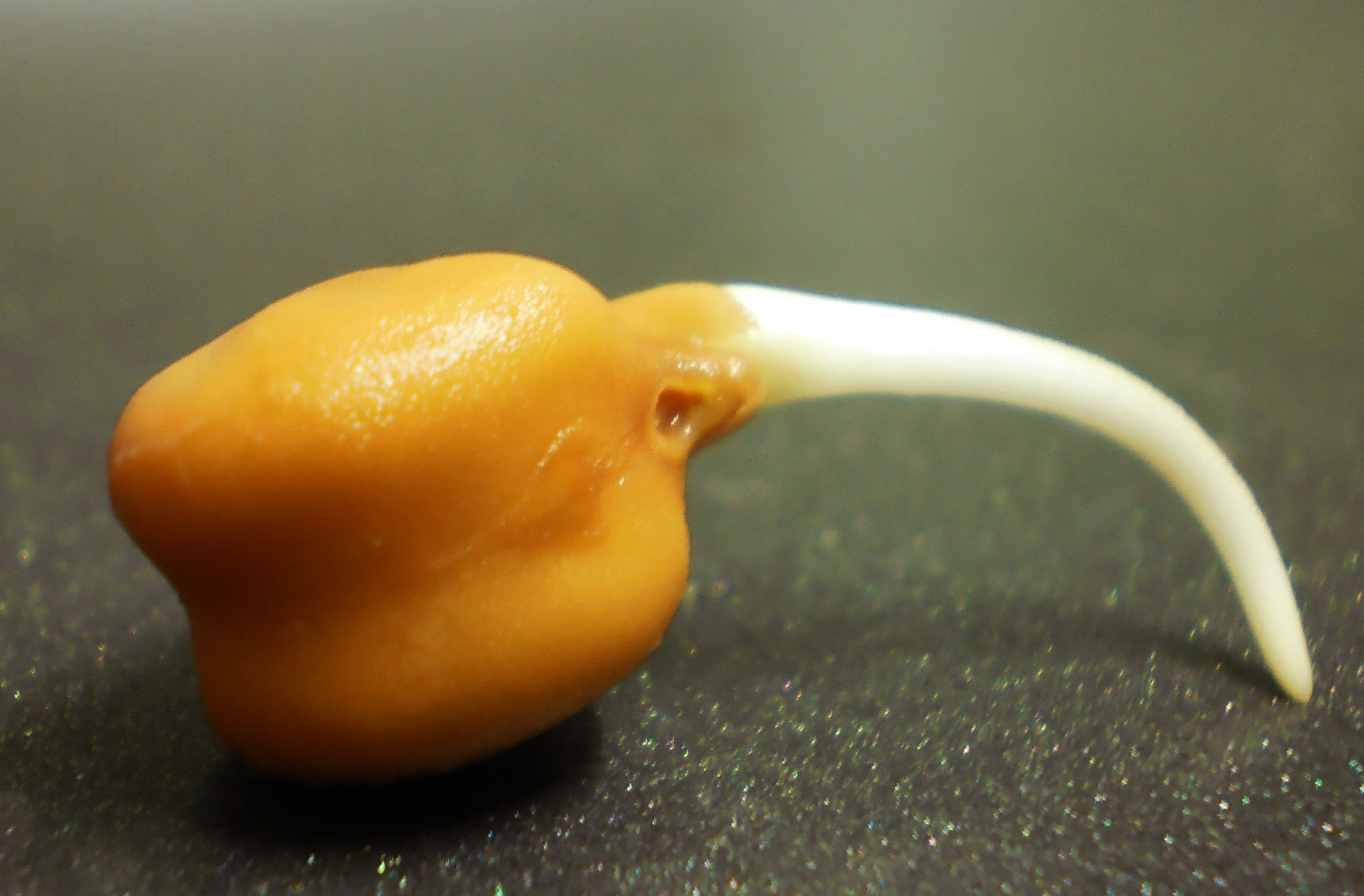 Sprouted chickpea - closeup view